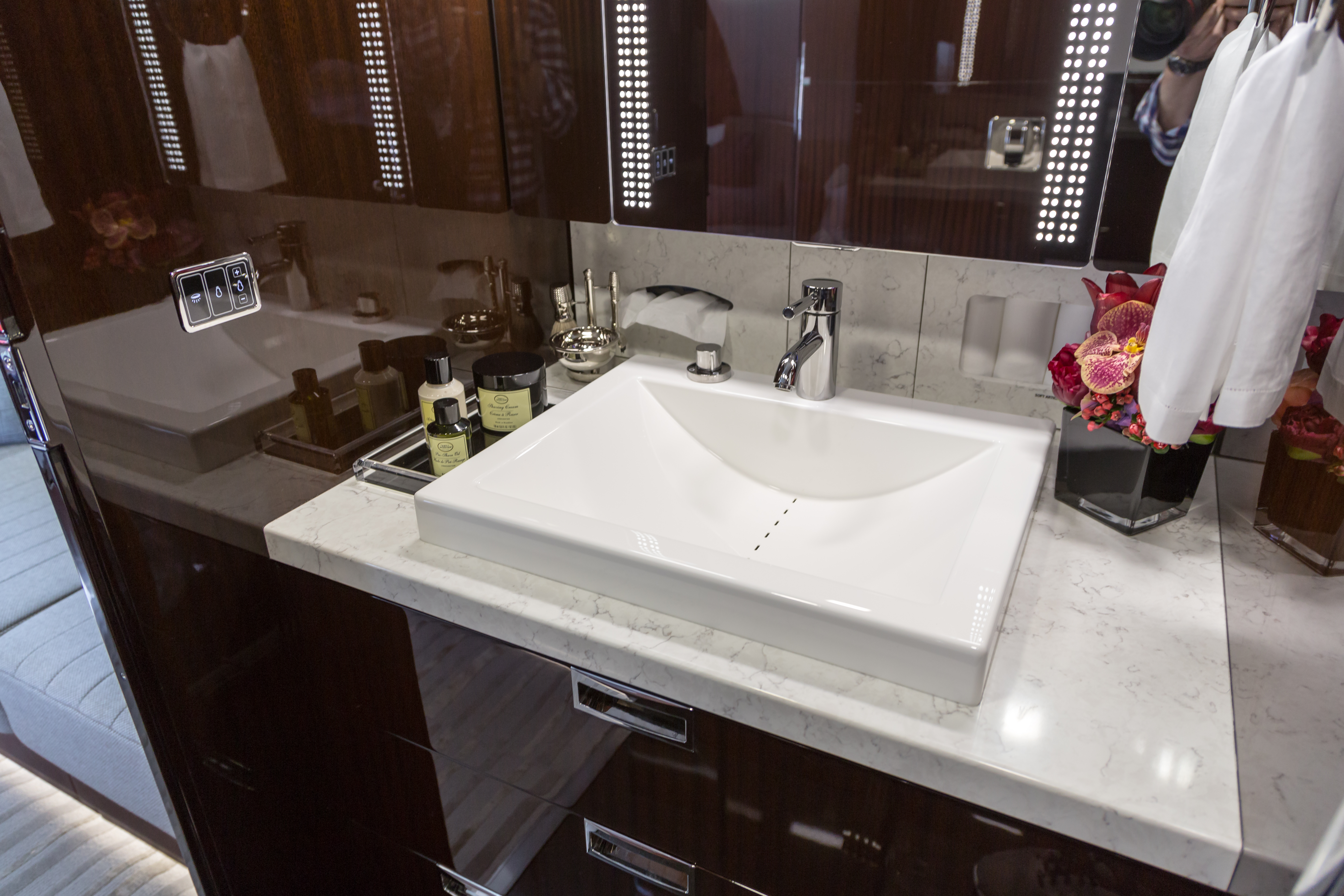 Gulfstream G650ER, EBACE 2018